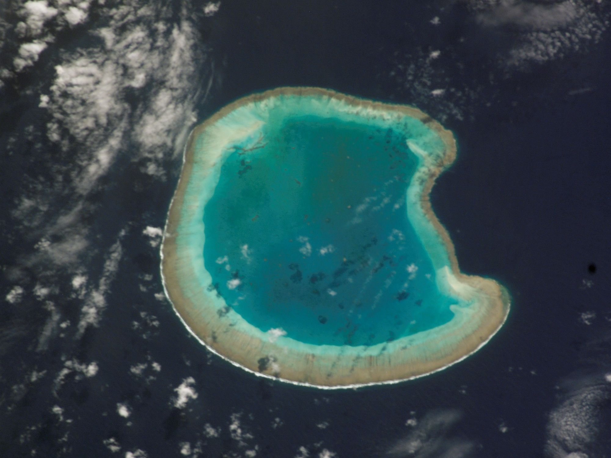 NASA astronaut image of Bassas da India Atoll in the Indian Ocean